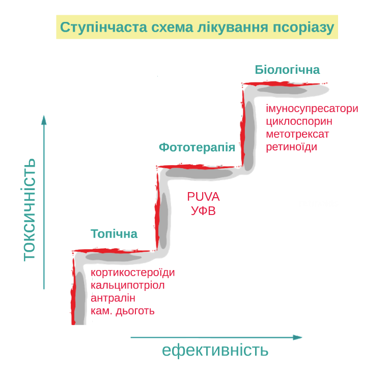 Psoriasis treatment ladder (in Ukrainian)